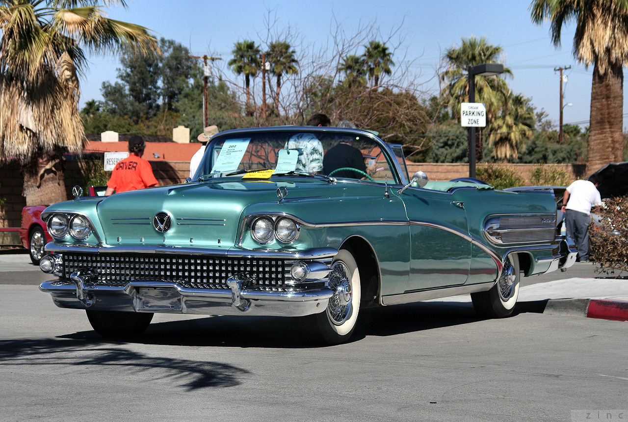 This is a picture of a vehicle (name of it is on the file name).